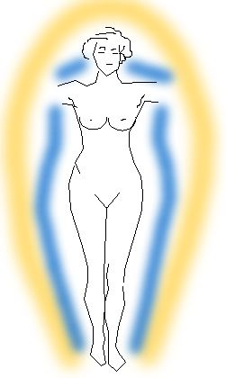 the human atmosphere